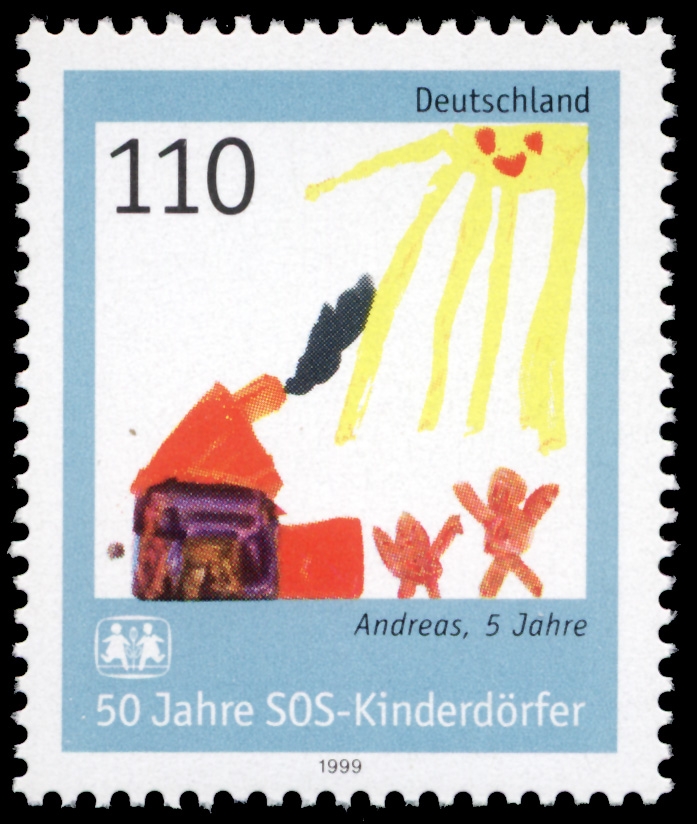 Stamp from Deutsche Post AG from 1999, 50th anniversary of SOS Children's Villages